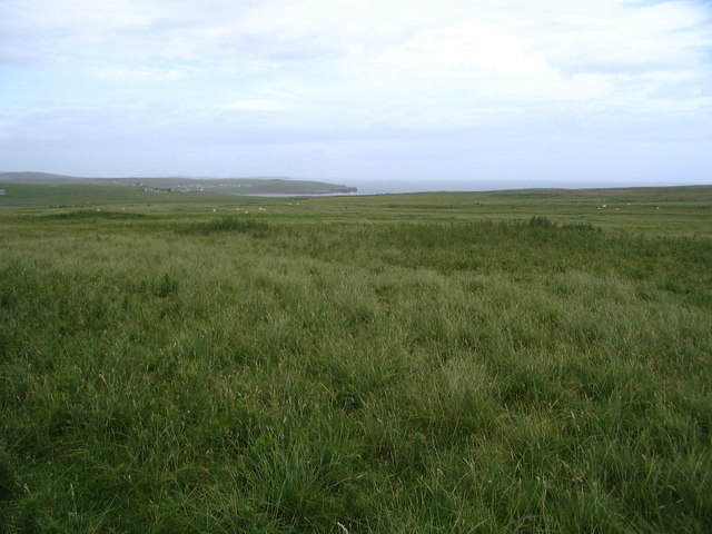 Moorland, looking NE towards Voe and Dalsetter Apart from the road, this square is rather featureless. Lacking human habitation, the picture shows the sheep that survive on this bleak landscape.